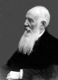 Cropped version of File:Nikola_Pasic.jpg